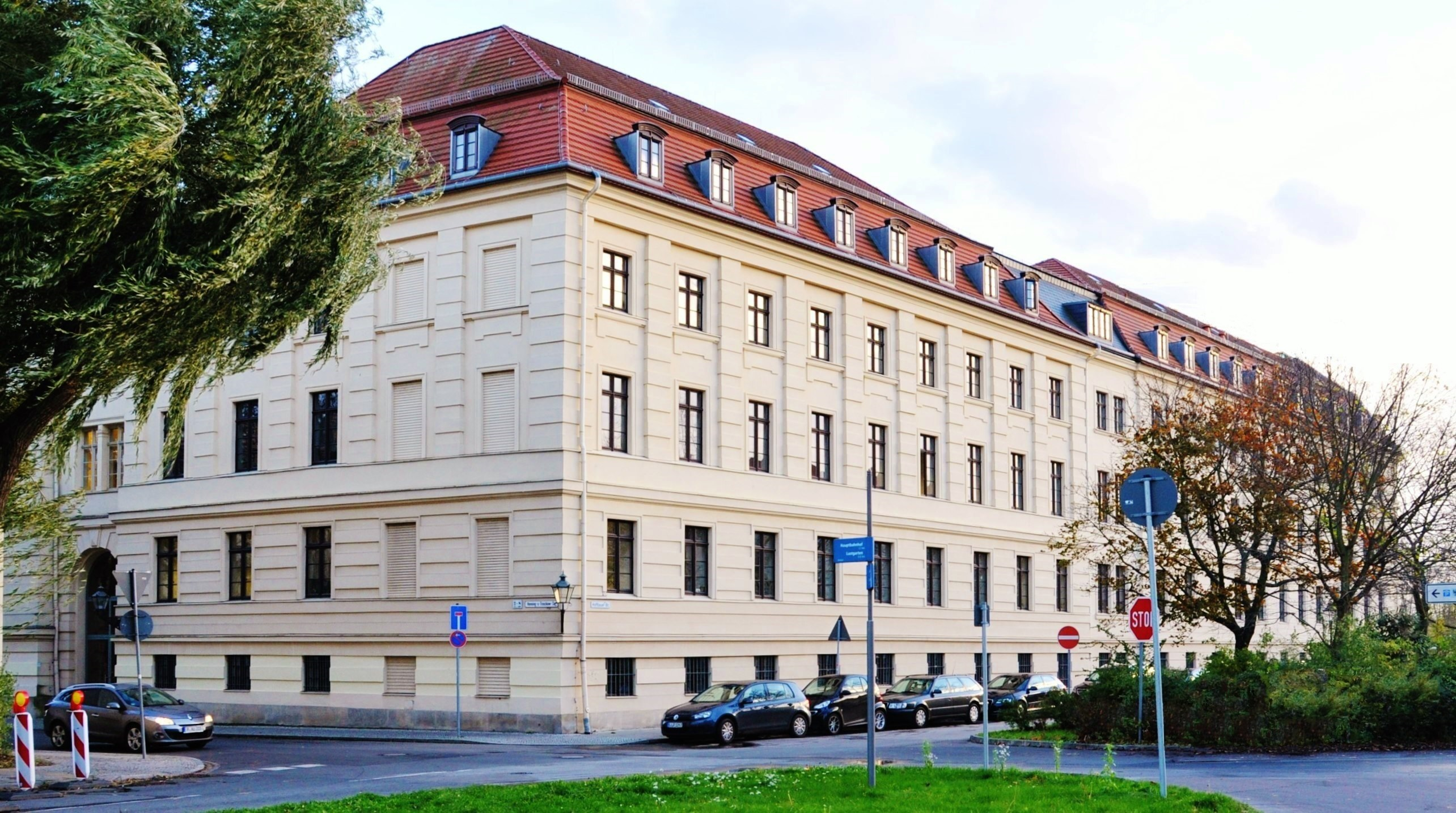 Former Prussian Rifle Factory Potsdam